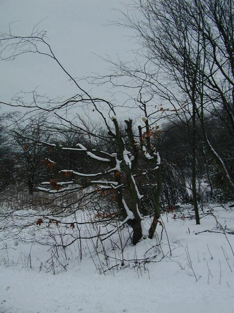 Exampel how NOT to make pruning.